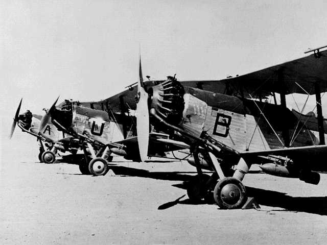 Three Westland Wapiti aircraft that the British had been using in tribal warfare in regions such as Palestine and Mesopotamia and which the RCAF acquired from them in 1936.